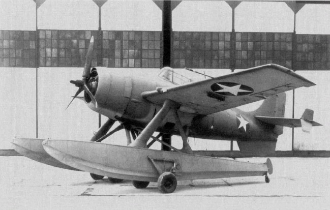 The Grumman F4F-3S Wildcatfish (or Wild Catfish), BuNo 4038. This floatplane version of the F4F-3 was developed for use at forward island bases in the Pacific, before the construction of airfields. It was inspired by appearance of the Mitsubishi A6M2-N Rufe, a modification of the Mitsubishi A6M2 Zero/Zeke. The Edo Corporation fitted one F4F-3 with twin floats. To restore the stability, small auxiliary fins were added to the tailplane. Because this was still insufficient, a ventral fin was added later. The F4F-3S was first flown 28 February 1943. The weight and drag of the floats reduced the maximum speed to 390 km/h (241 mph). Edo provided 100 sets of floats, but as enough air bases were available, it was unnecessary to proceed with further floatplane conversions, and the project was canceled.